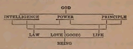 Taken from S. A. Weltmer Book Mystery Revealed 1901